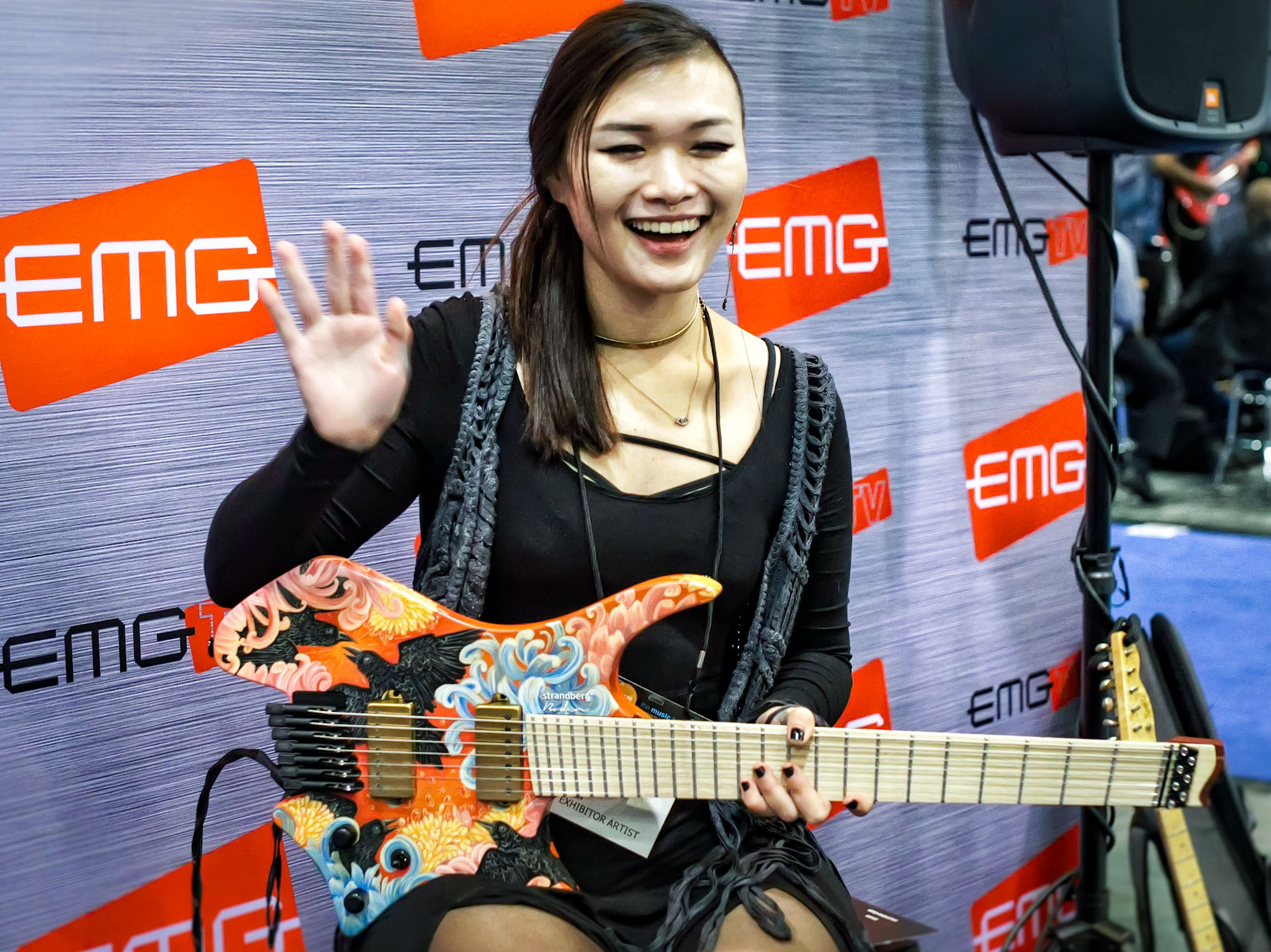 Yvette Young at EMG booth NAMM 21st January 2016 with custom painted .strandberg* guitar by Yvette